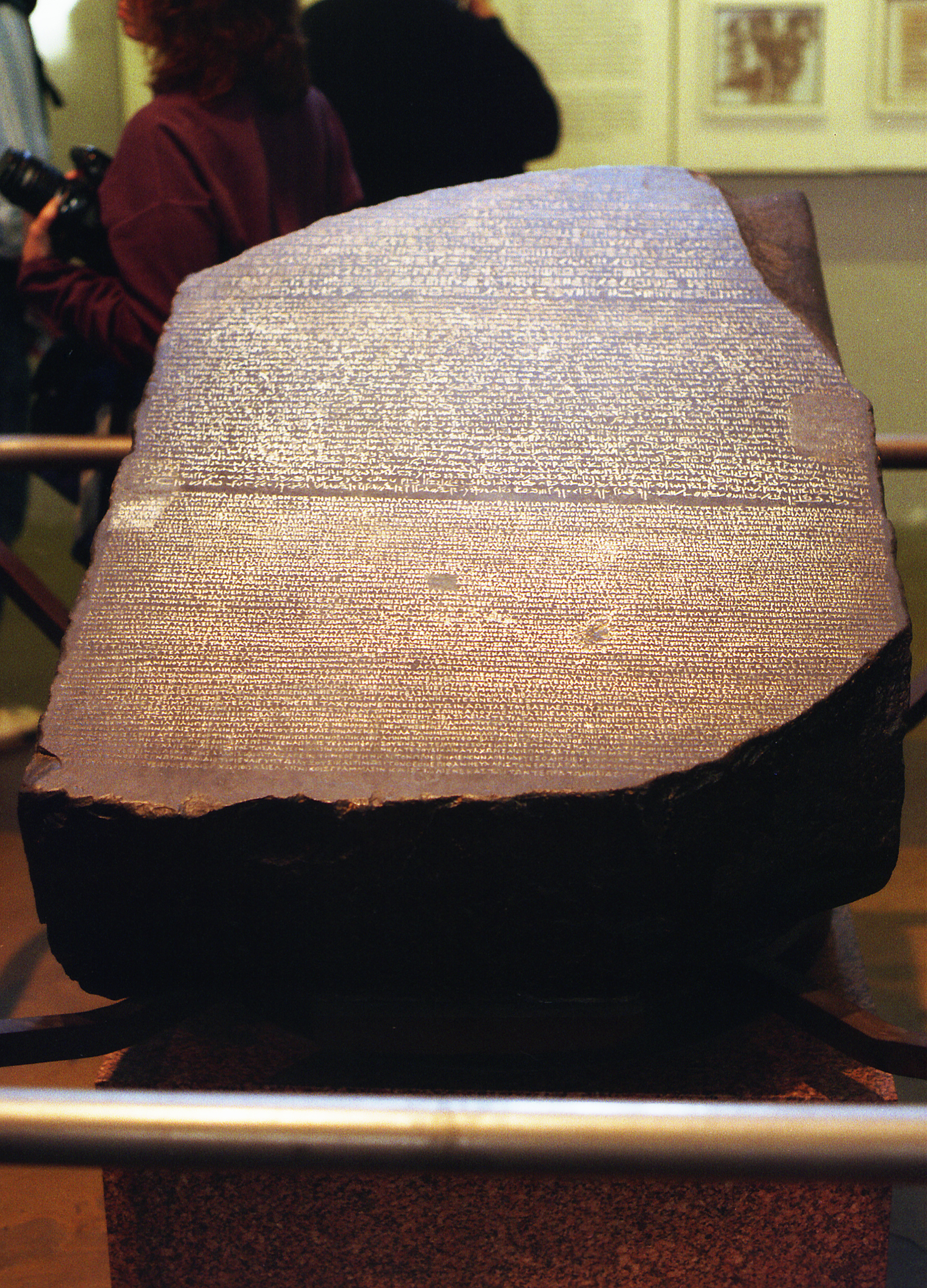 The Rosetta Stone, in the British Museum, London, England